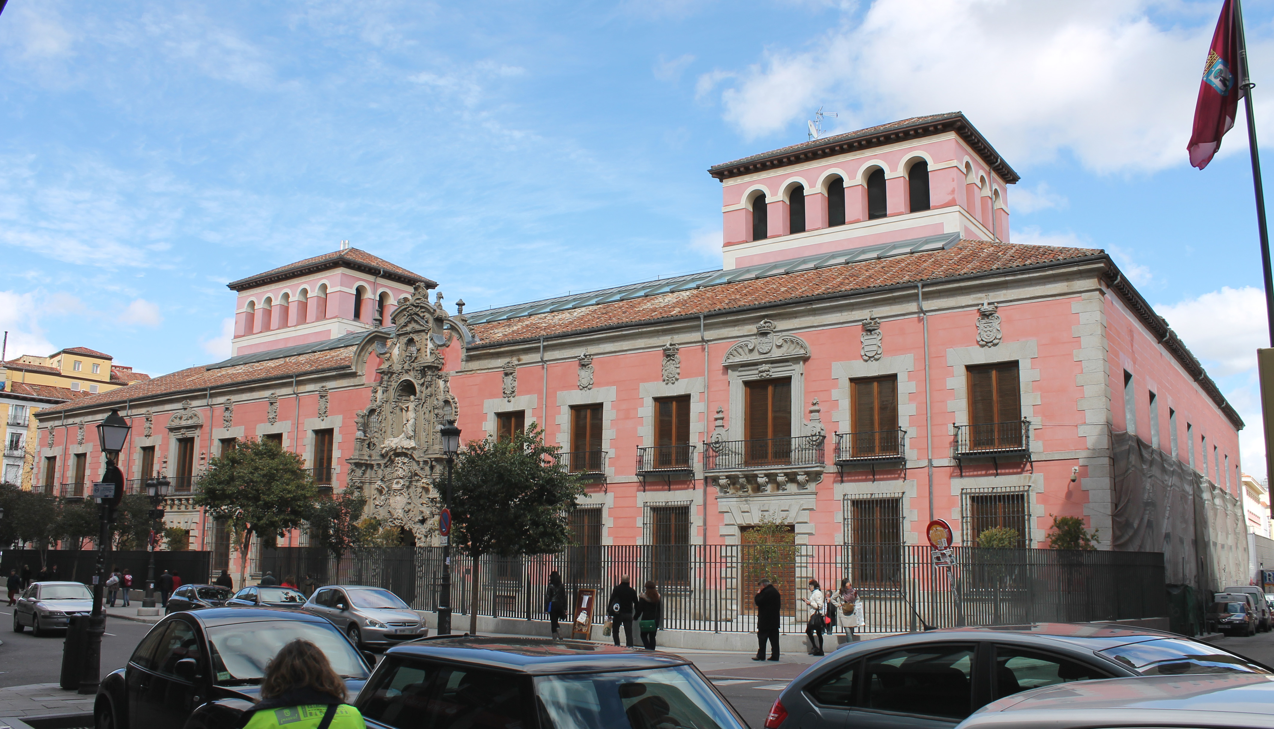 Façade of the History Museum of Madrid (Spain).